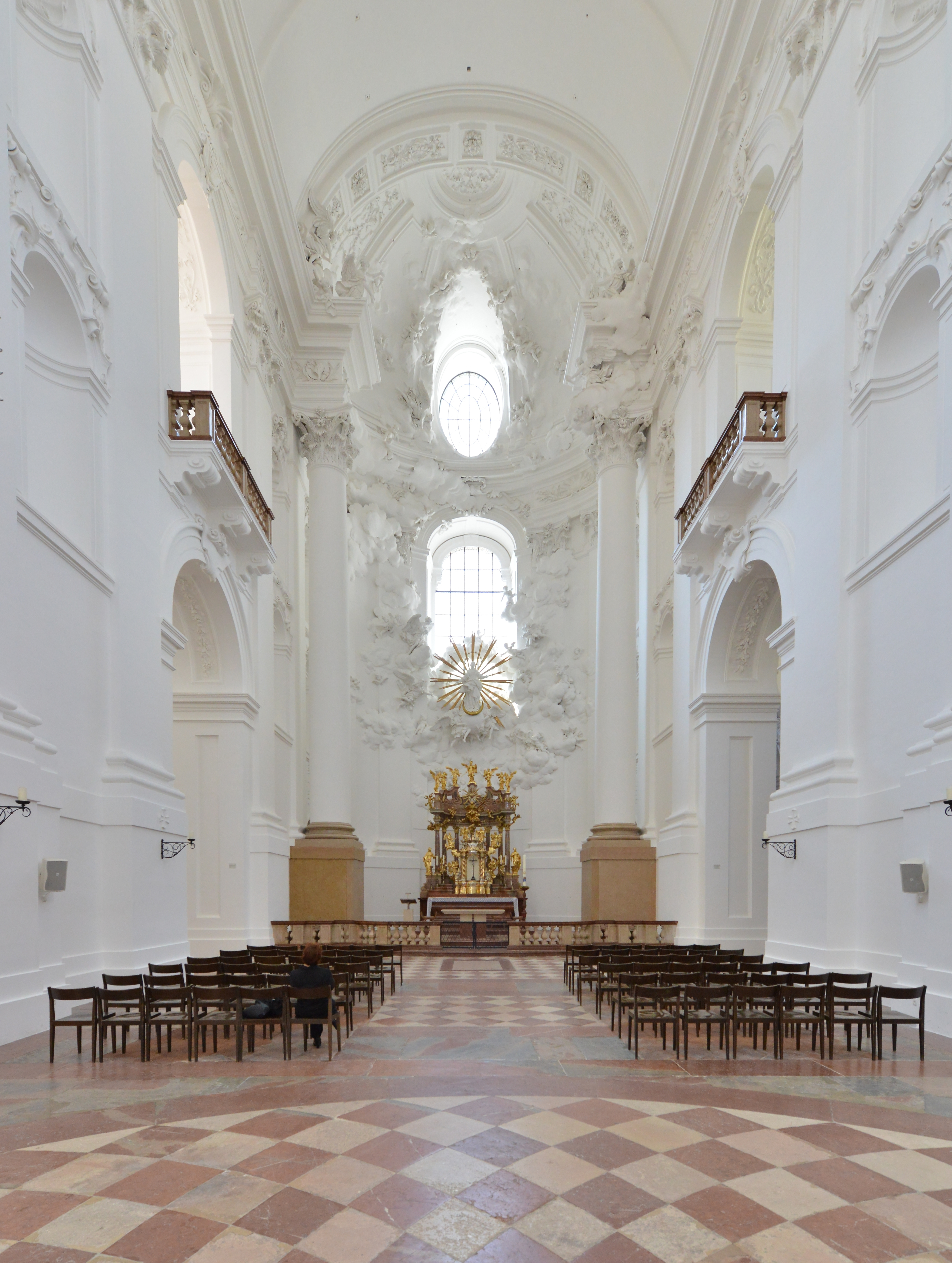 Austria, Salzburg, Kollegienkirche